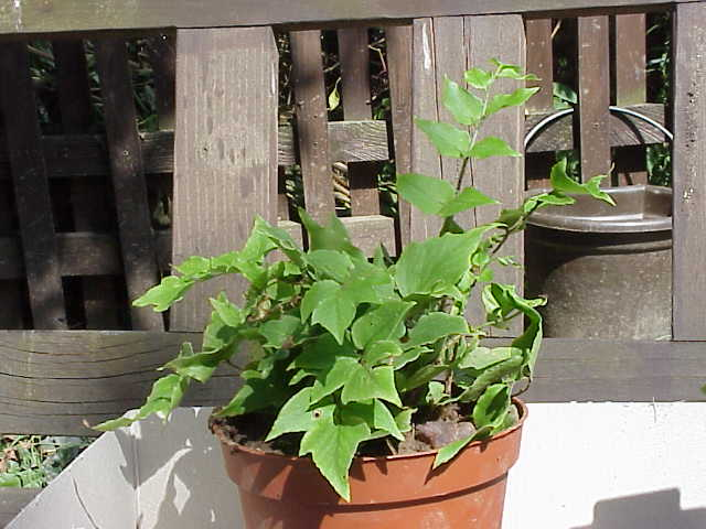 Species: Cyrtomium fortunei Family: ' Image No. 2